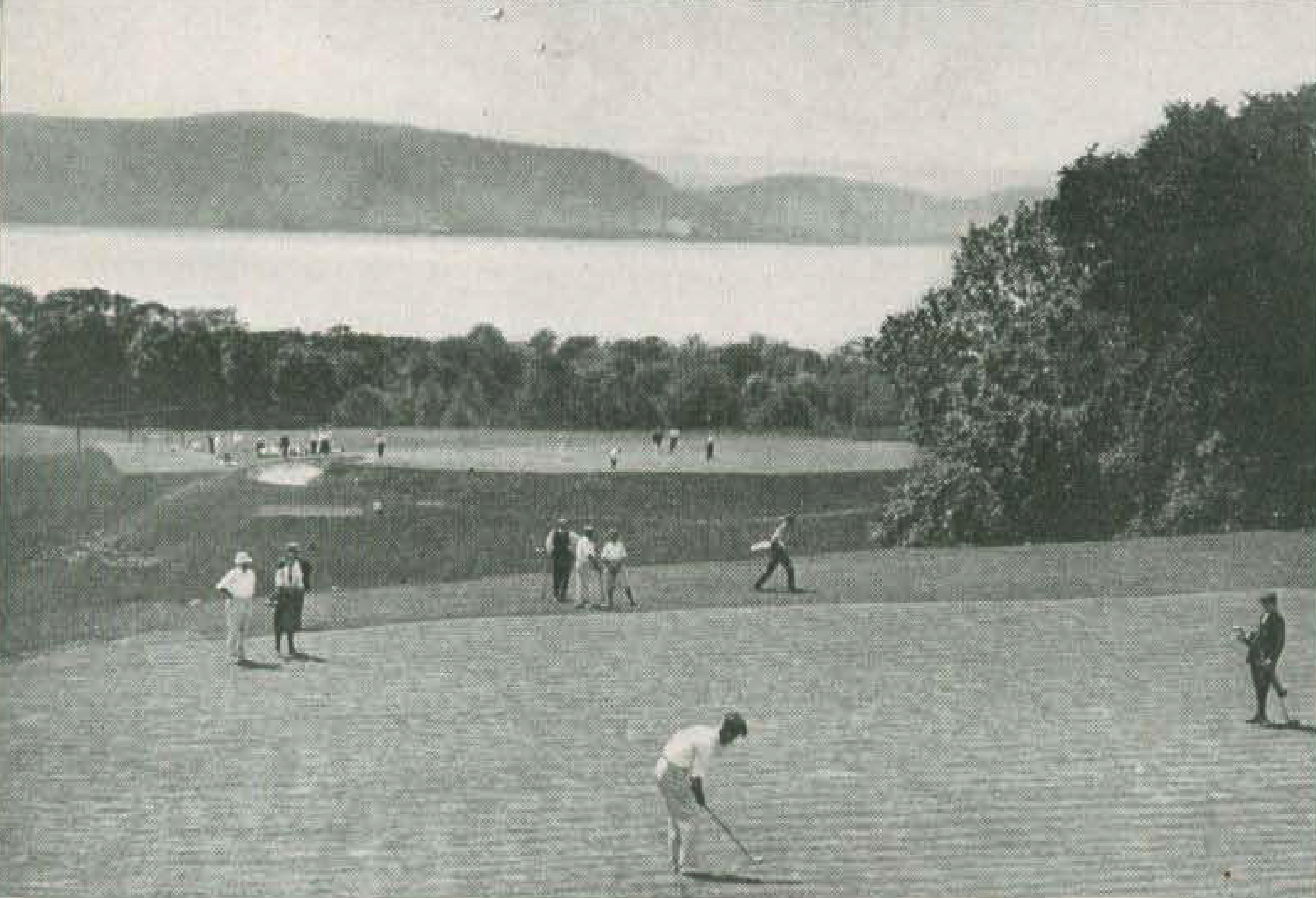 This is an image of the Woodlea estate in Briarcliff Manor, New York.